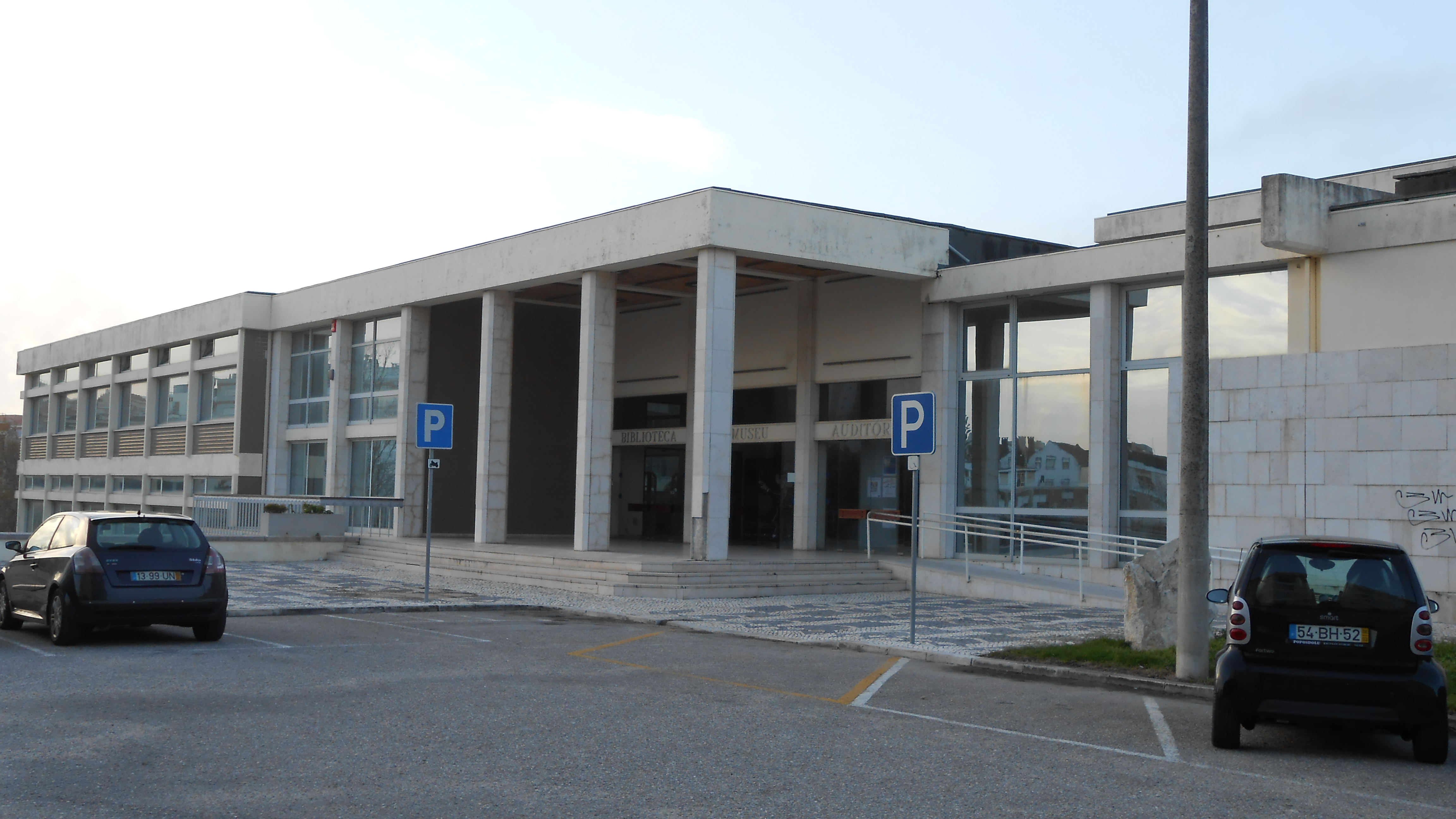 Main entrance to the Museu Municipal Santos Rocha in portuguese seaside town Figueira da Foz.